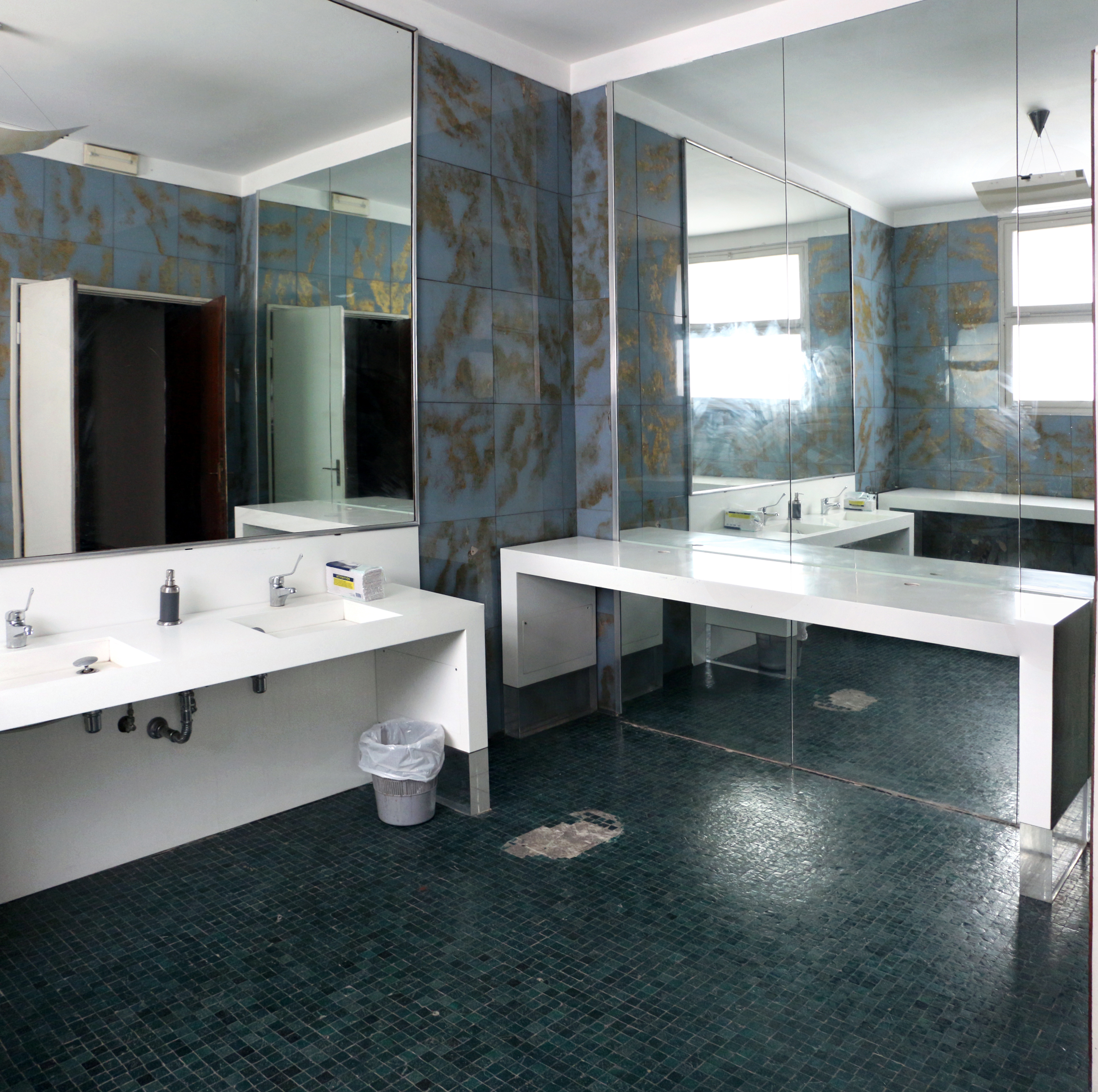 Palazzina Reale di Santa Maria Novella